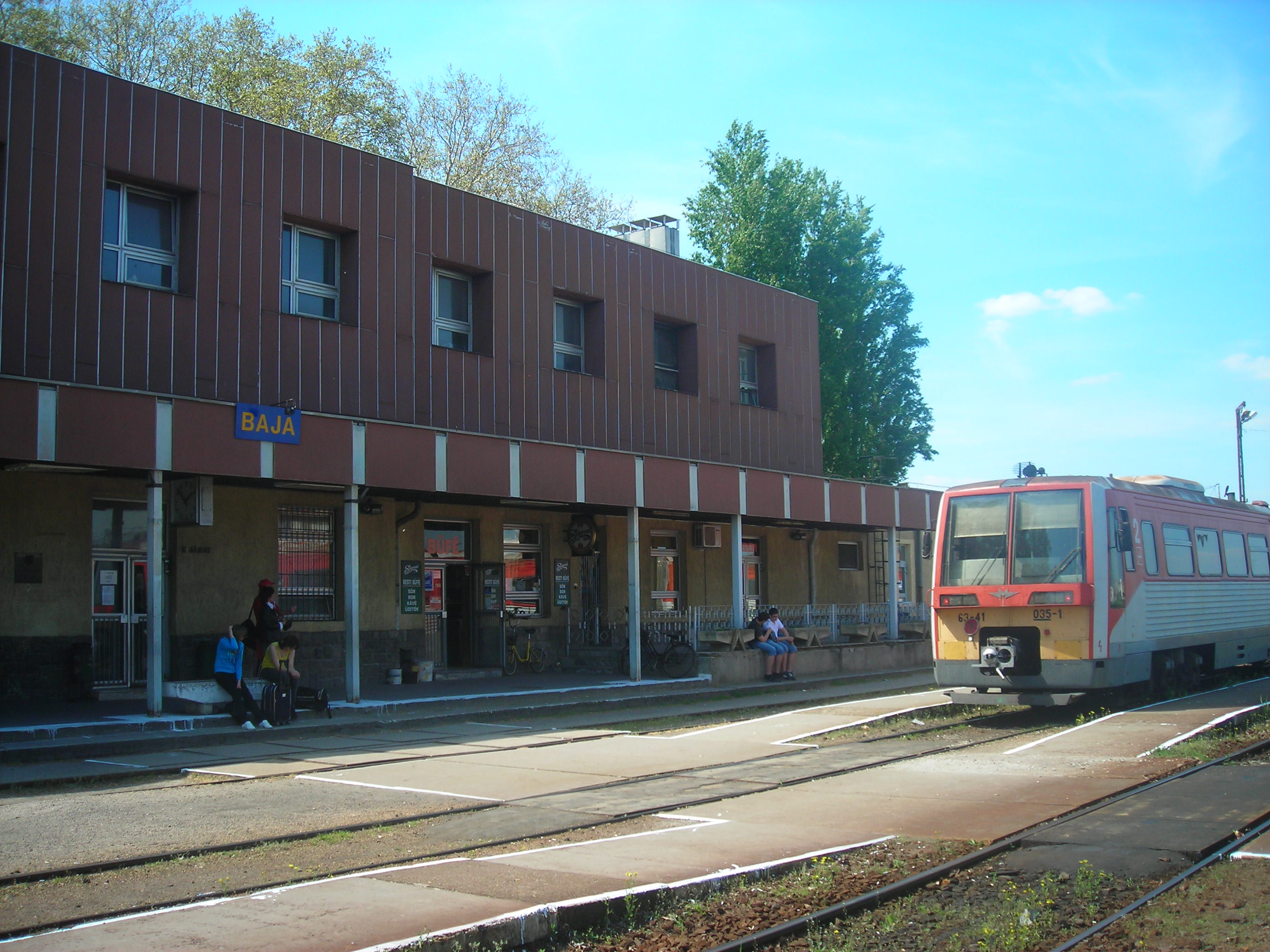 Baja railway station